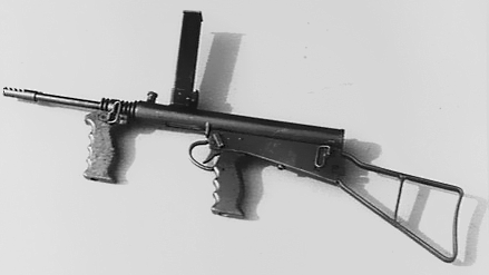 A photograph of the final design, completed Owen machine carbine gun.